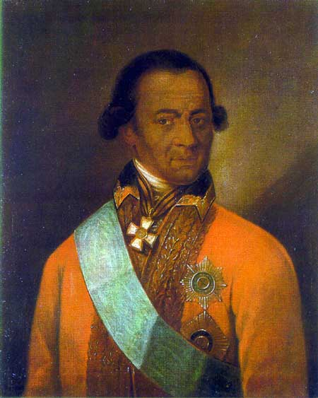 A portrait traditionally belived to be of Abram Petrovich Gannibal. According to research by Natalya Teletova[2] the painting is not of Gannibal. According to her, it shows a general Meller-Zakomelski. The order he is wearing was created after the death of Abram Gannibal.